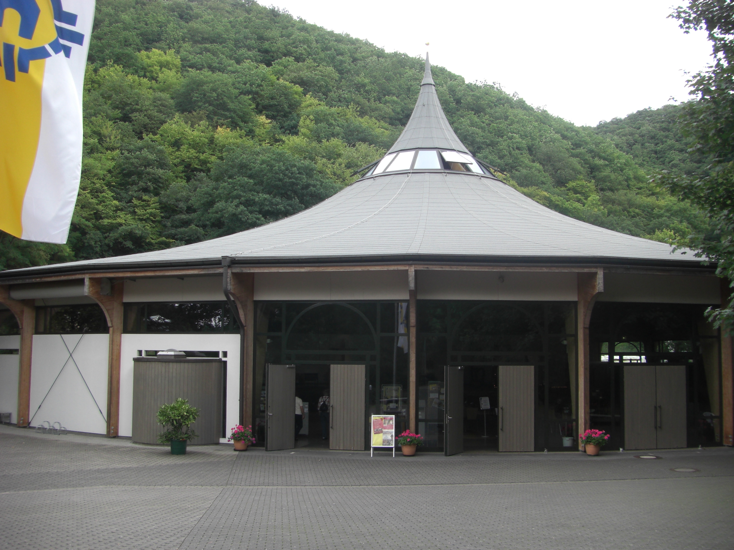 Pilgrim church in Schoenstatt.